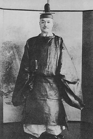 Taro Katsura wearing Sokutai